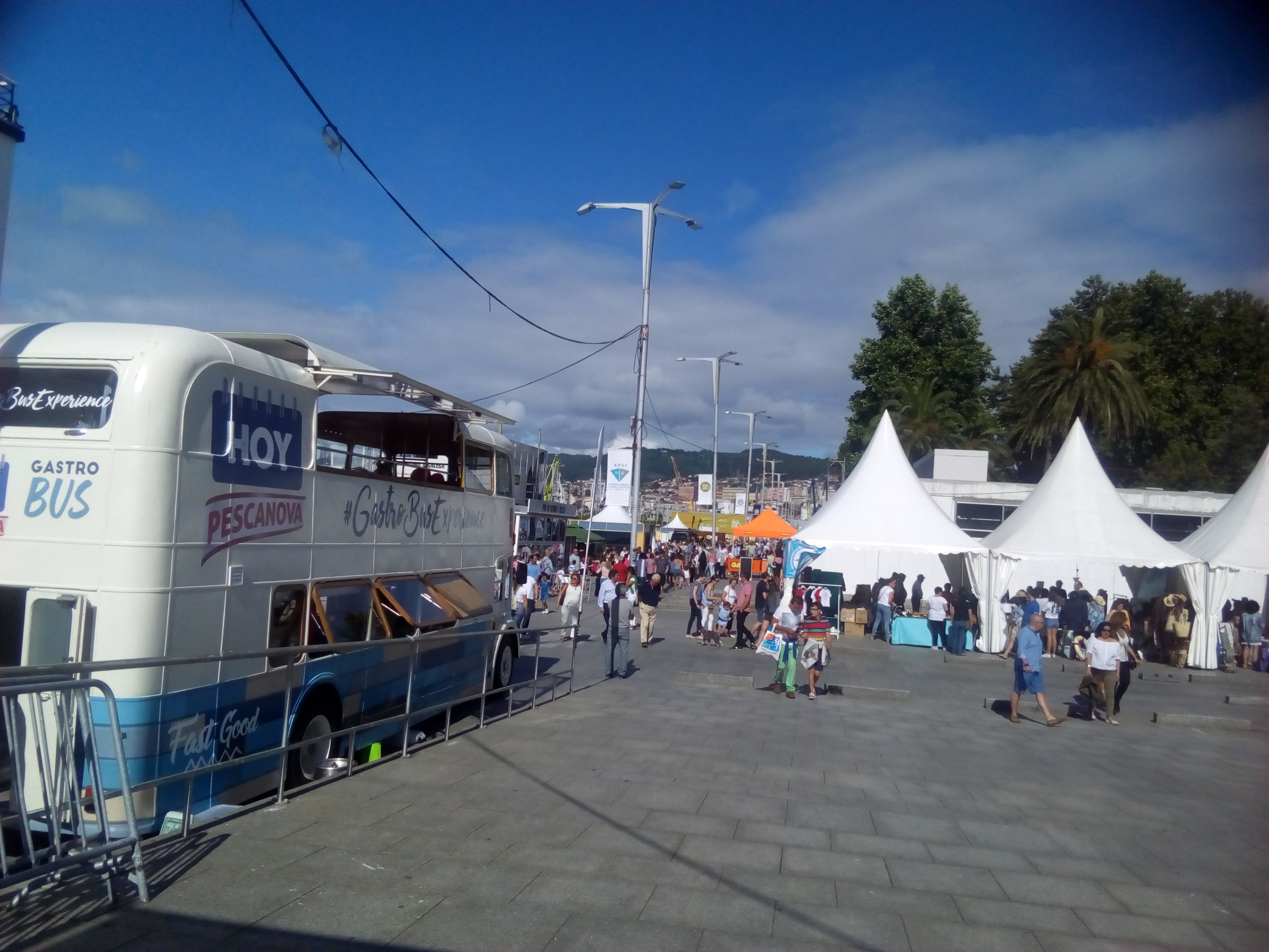 Vigo Sea Fest 2017